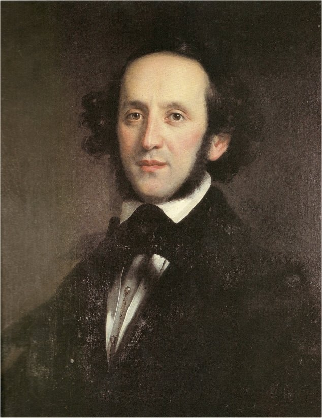 Portrait of Felix Mendelssohn Bartholdy